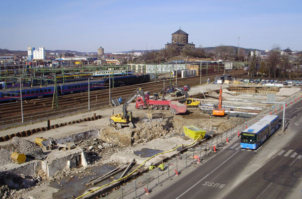 Friggatan in Göteborg, Sweden, March 2009, the old motorcycle shops have been demolished and the construction of new apartment houses has begun